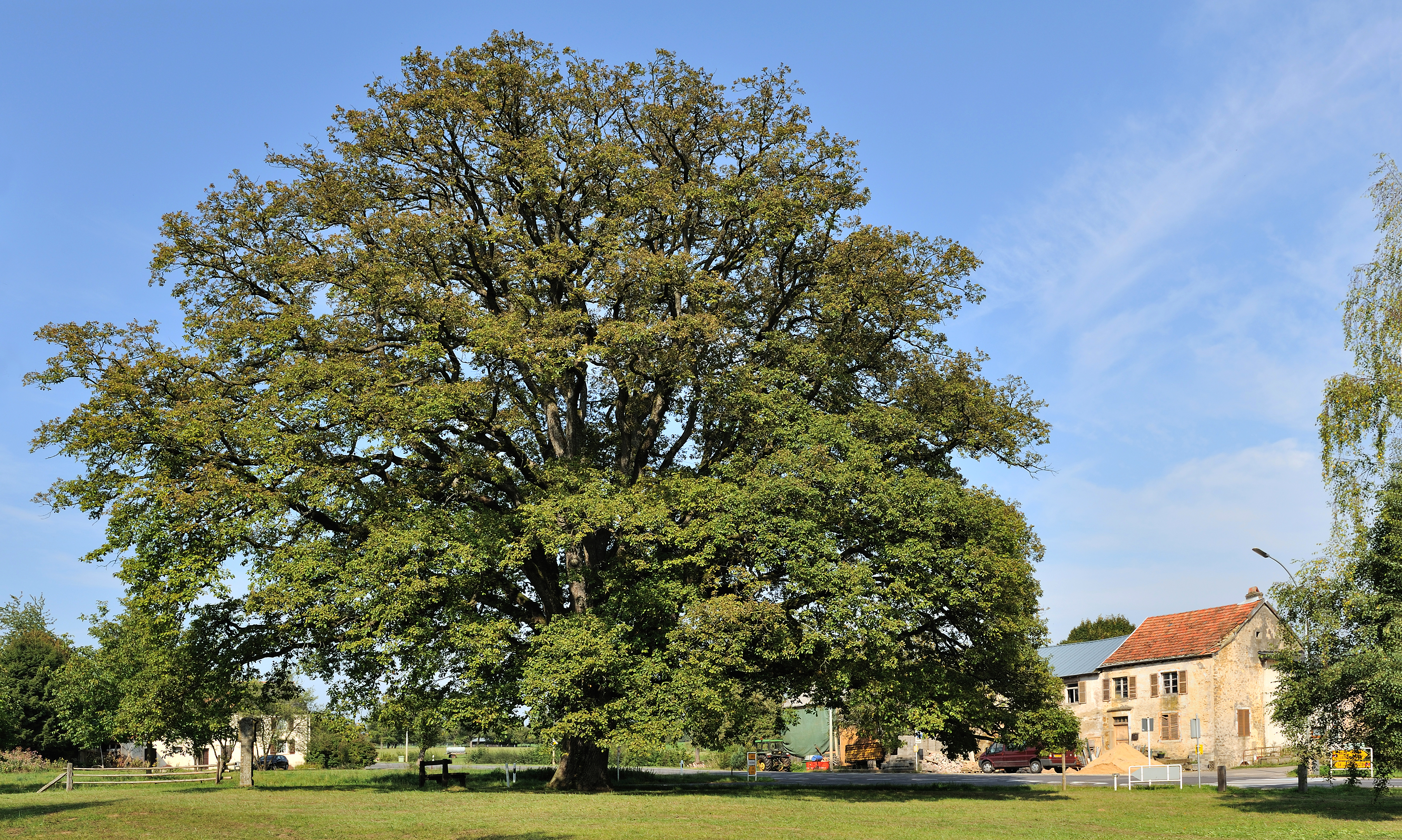 Remrkable oak at Saeul, lieudit Hëlzent, Luxembourg. This oak is around 280 years old.